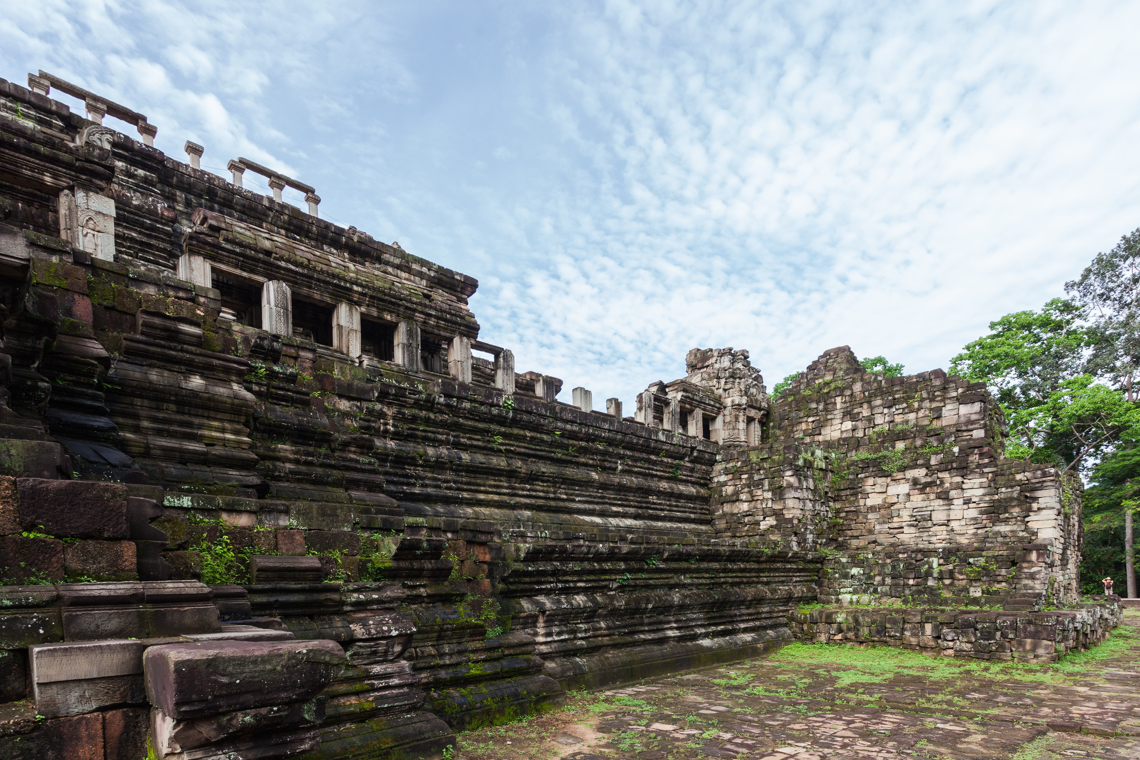 Baphuon, Angkor Thom, Cambodia